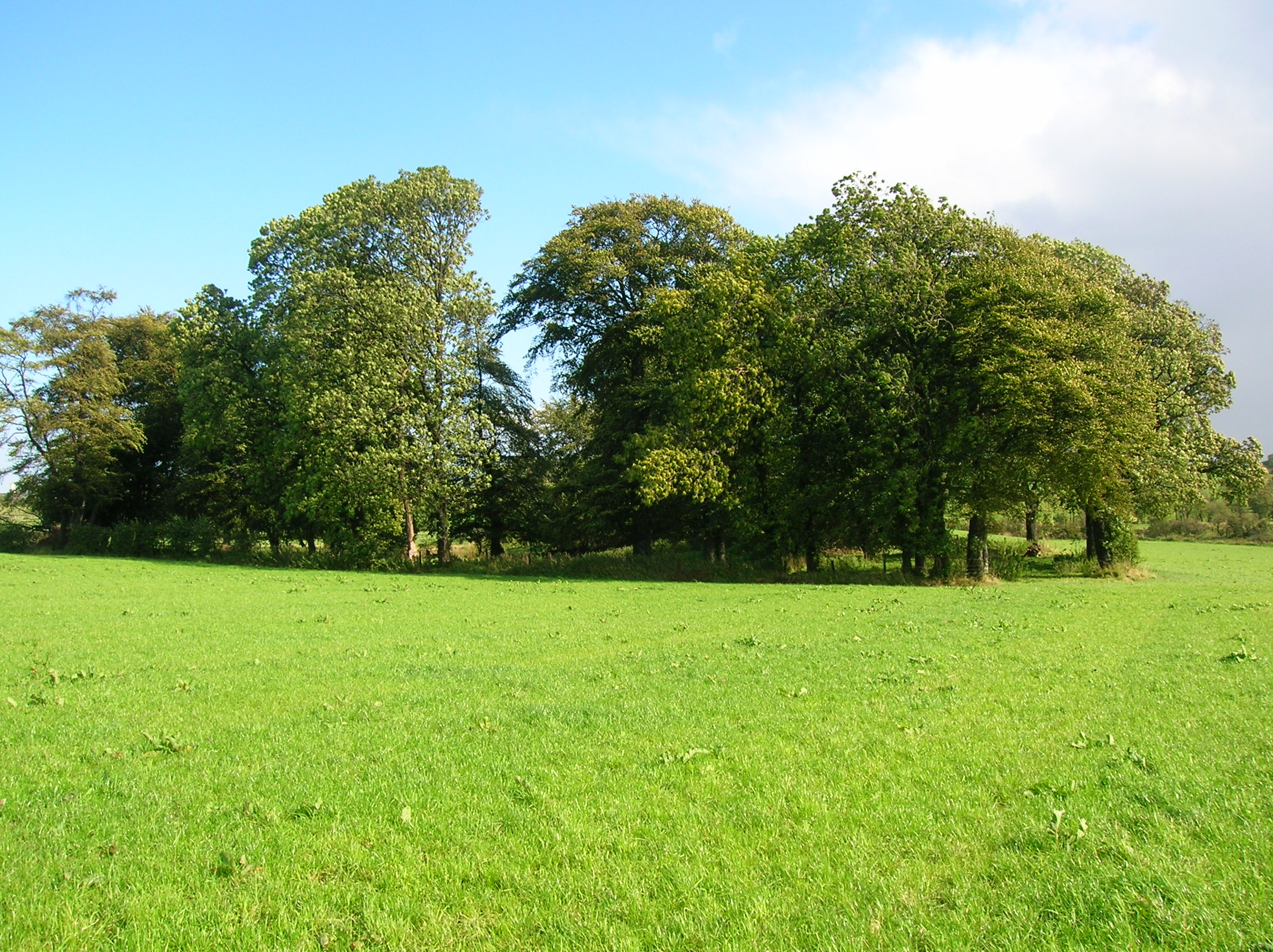 The copse at old Mossend Farm, Hessilhead, Ayrshire, Scotland.